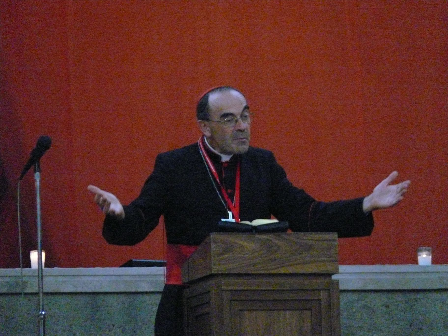 Cardinal Barbarin during the World Youth Day 2011 (Madrid, Spain).